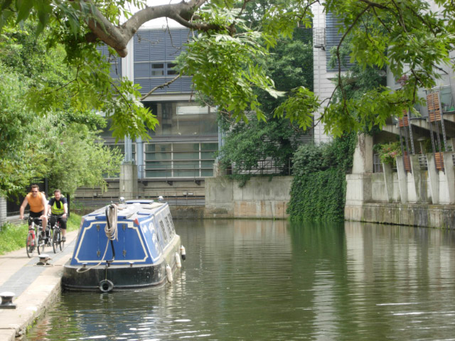 Regent's Canal, Camden Town A canal in an urban setting, but not without greenery and the tranquility that seems always to be noticeable wherever canals run. The towpath along this stretch is a popular cycle route away from the traffic.